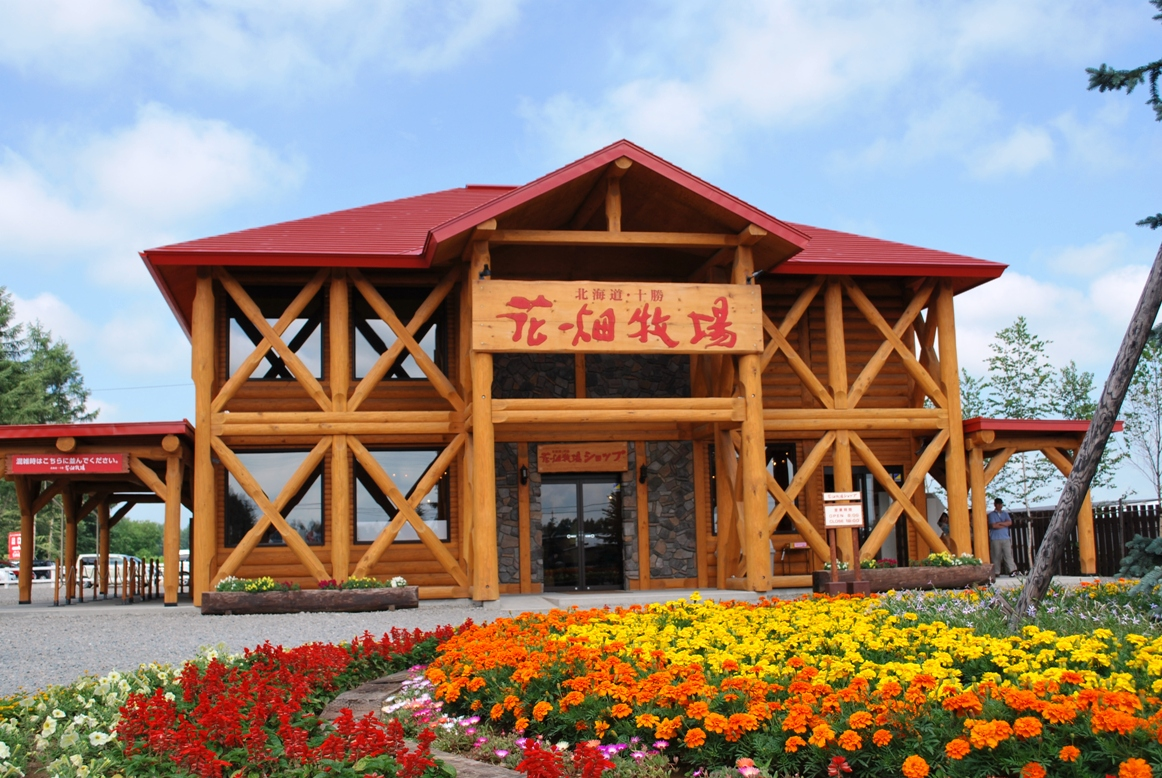 Hanabatake ranch at Nakasatsunai village